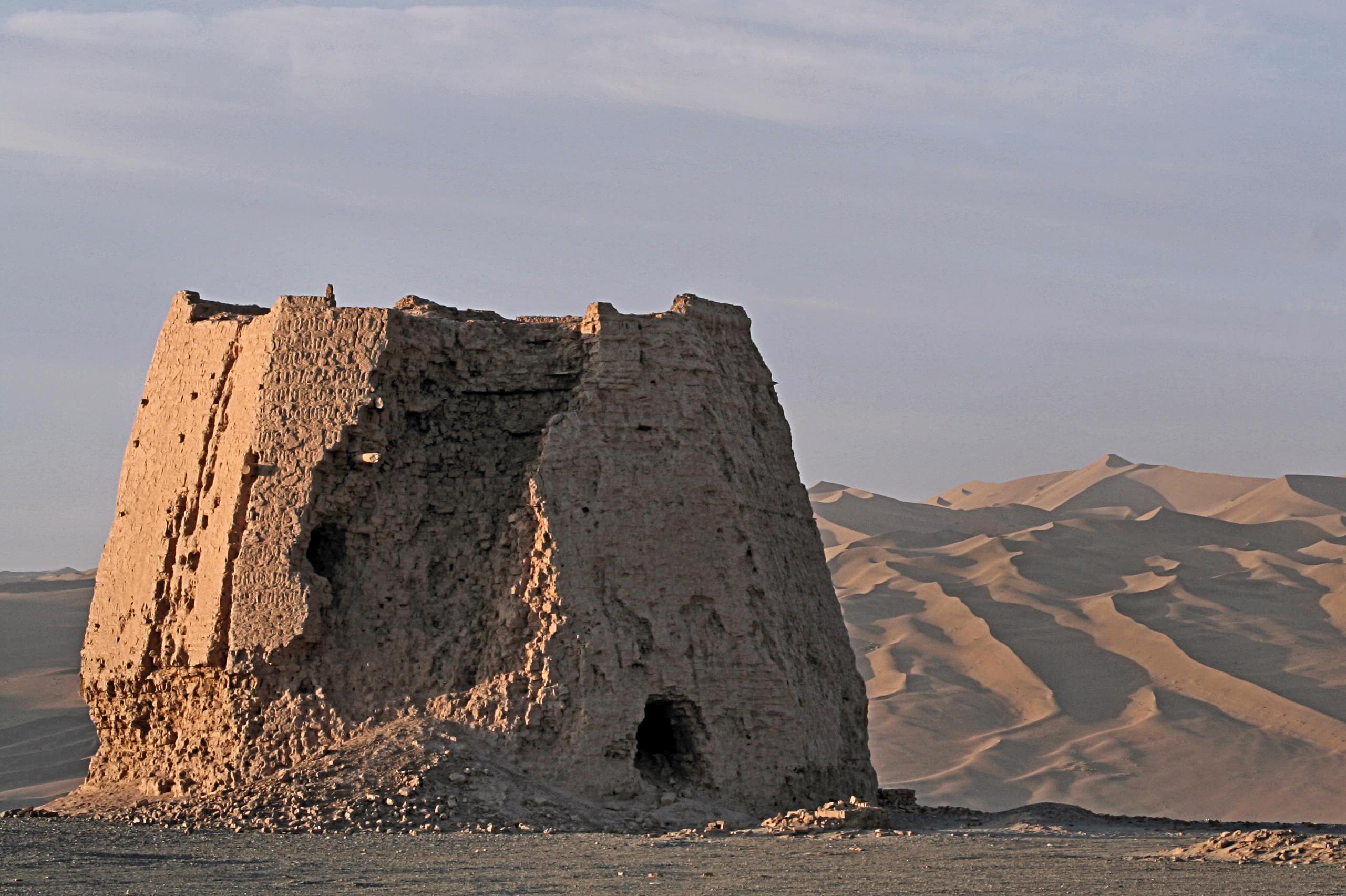 The ruins of the ancient Chinese Dunhuang watchtower from the Han Dynasty (202 BC—220 AD) — in Dunhuang, Gansu province, China. Located along what was the old line of rammed-earth fortifications that once stretched from the Hexi Corridor (in Gansu) to the Tarim Basin (in present day Xinjiang).